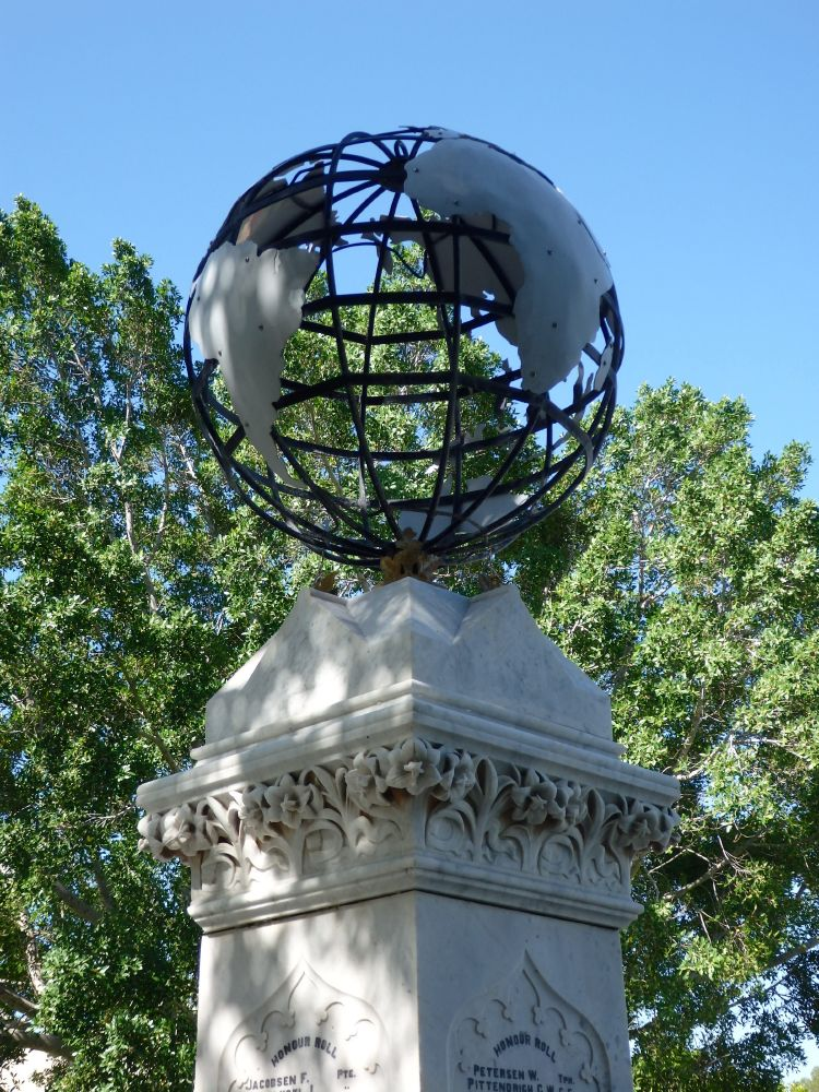 650026 detail, with 1990s globe, from SW